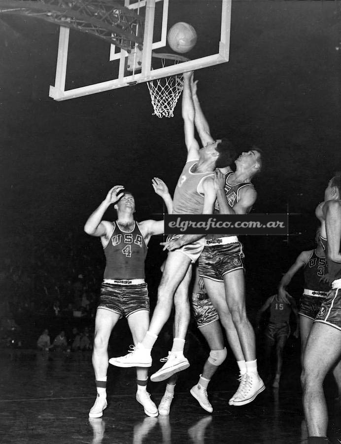 Scene of the match, Oscar Furlong (#3) fighting for the ball.